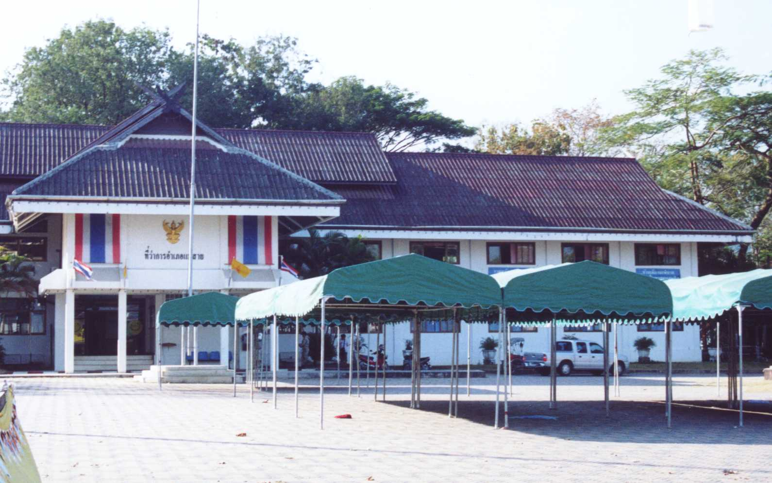 District office of Mae Sai, Chiang Rai Province, Thailand. Photo taken on February 2 2006 by User:Ahoerstemeier.